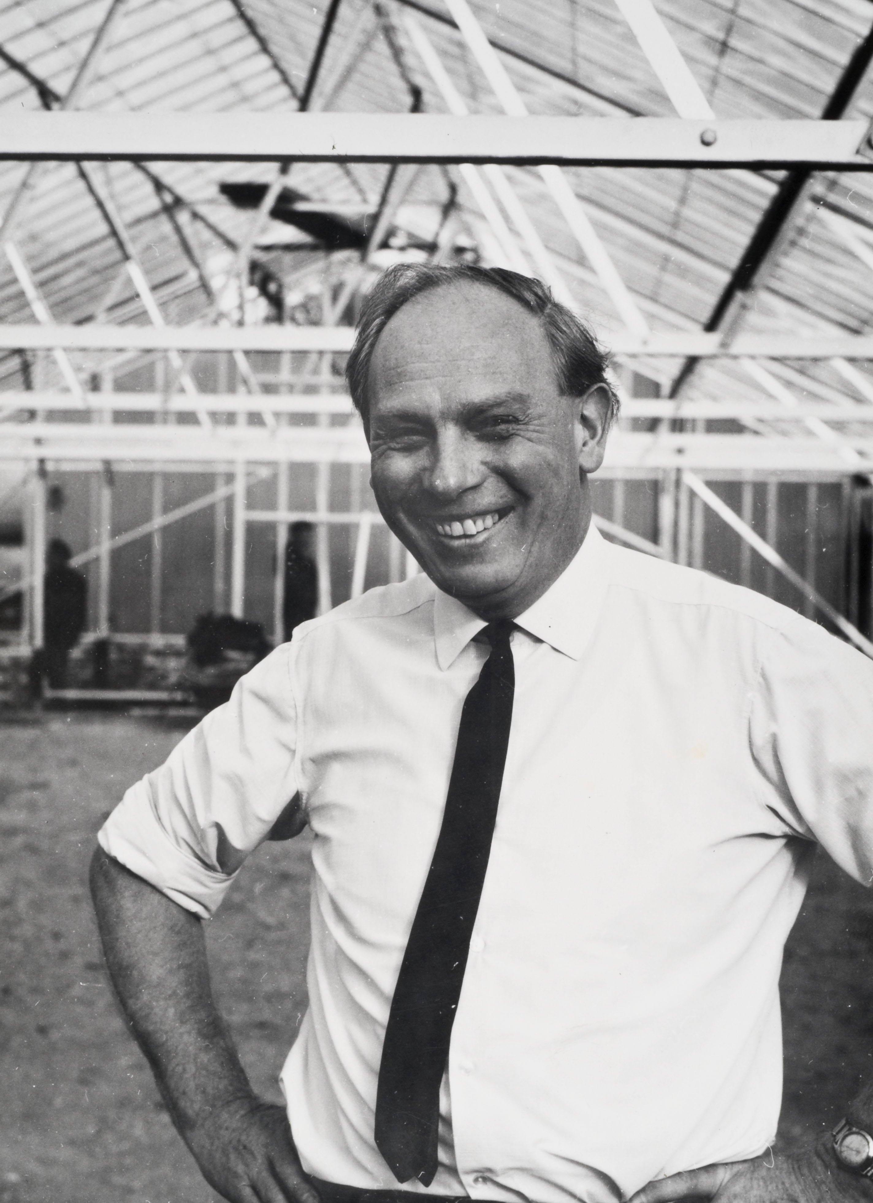 Image of Roy Markham at the John Innes Institute